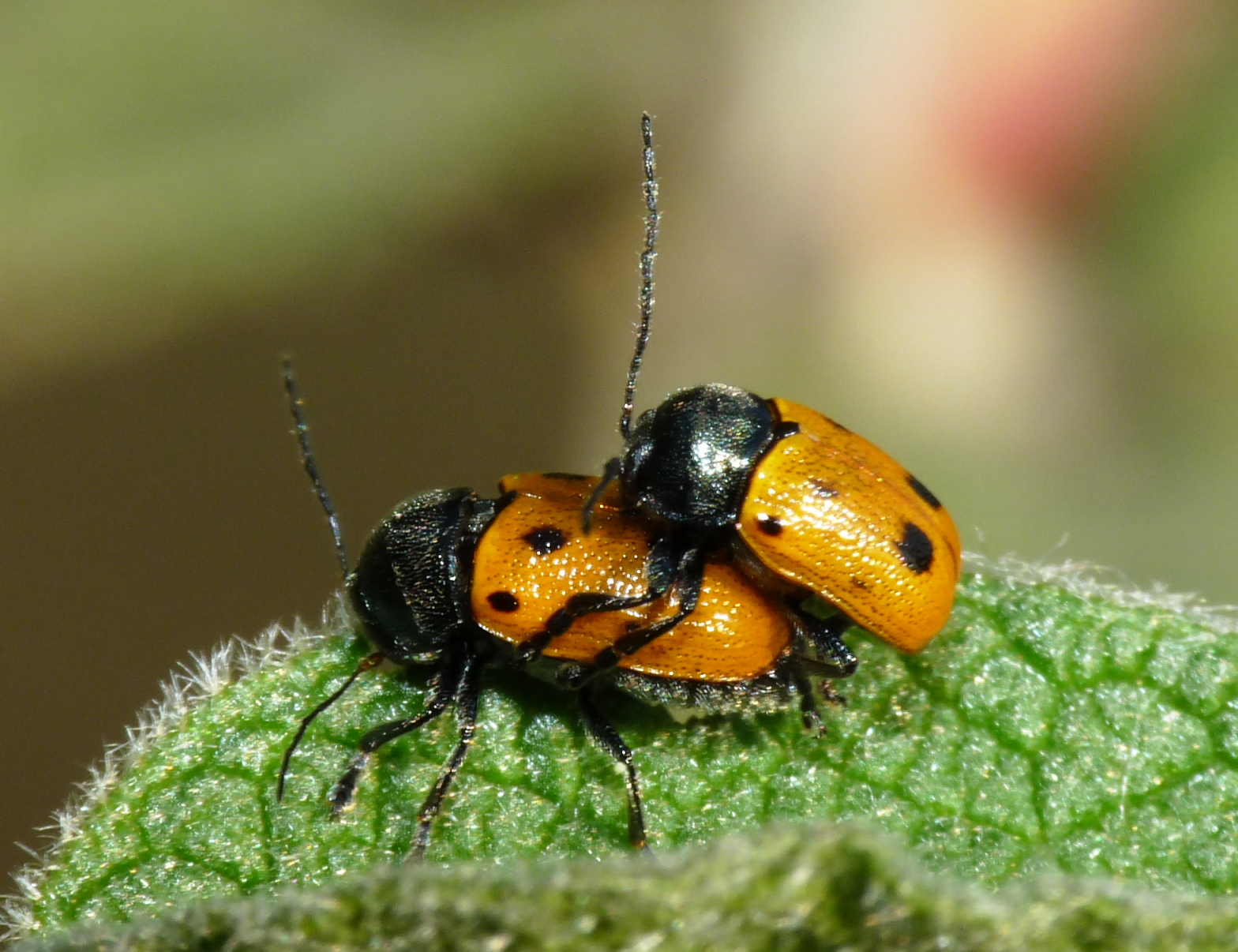 Cryptocephalus etruscus, near Livorno, Tuscany, Italy